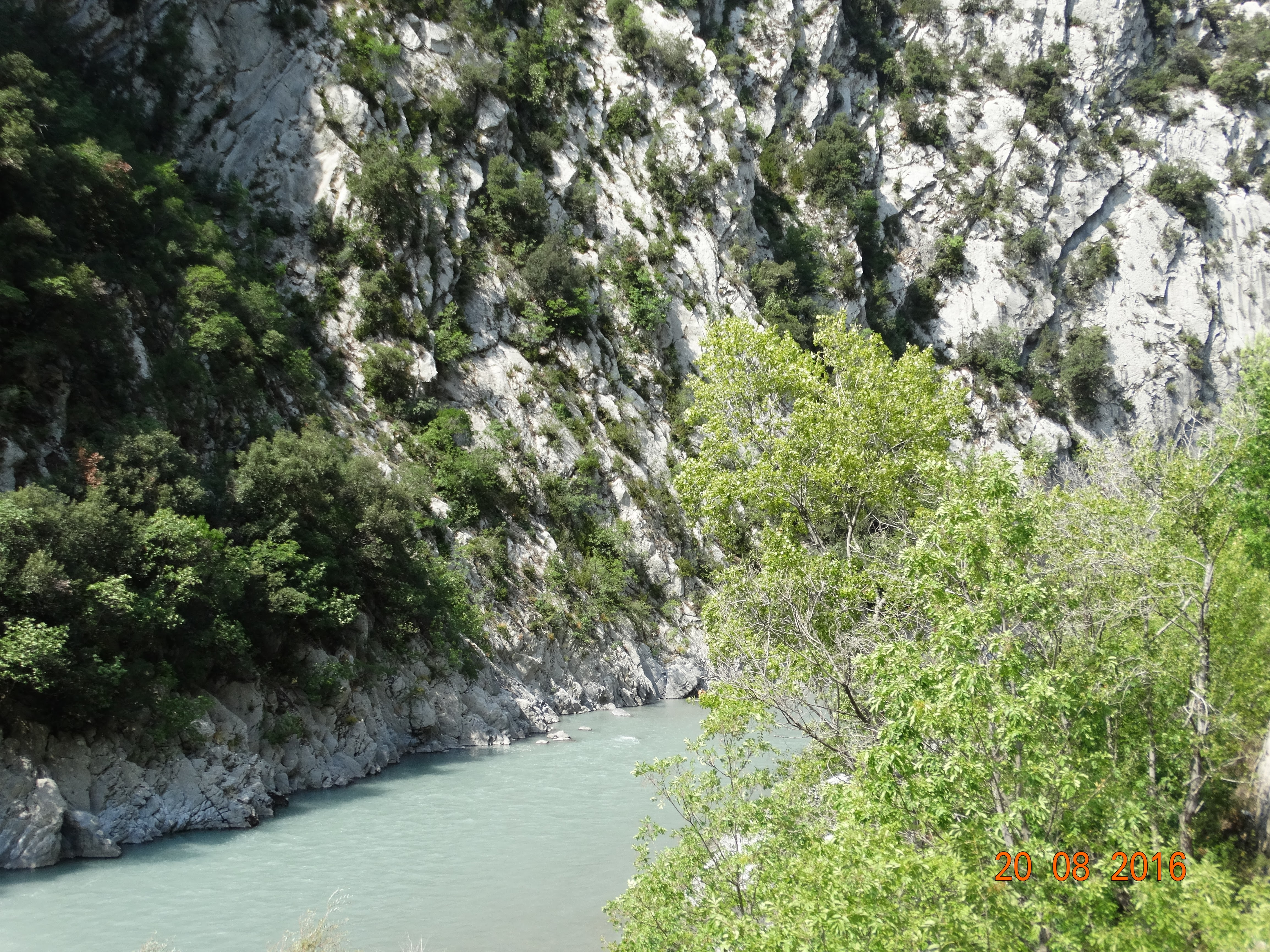 The Tinée